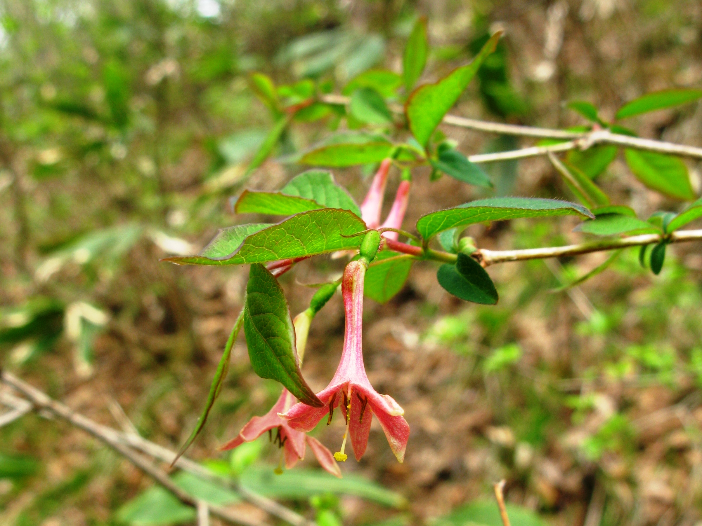 Lonicera gracilipes, Aizu area, Fukushima pref., Japan